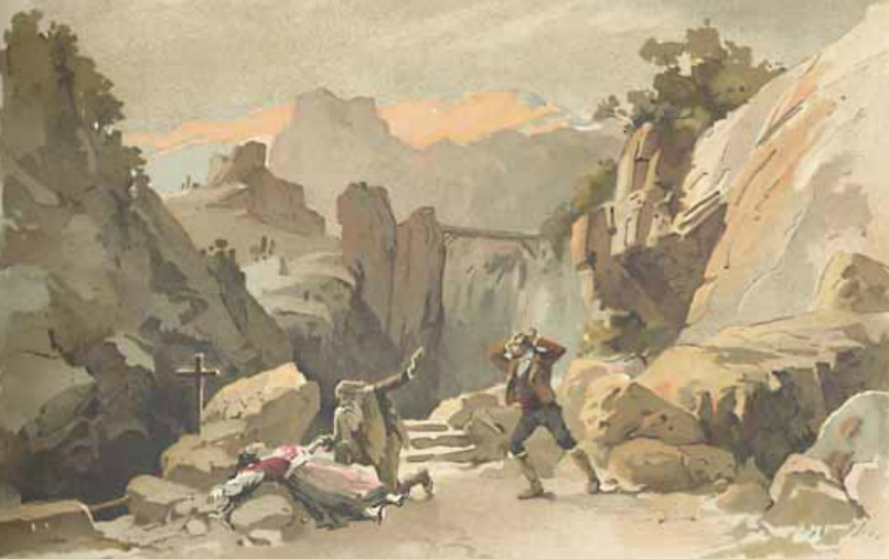 Watercolour of "Serrana", Act 3, Scene 4 - The Death of Zabel.